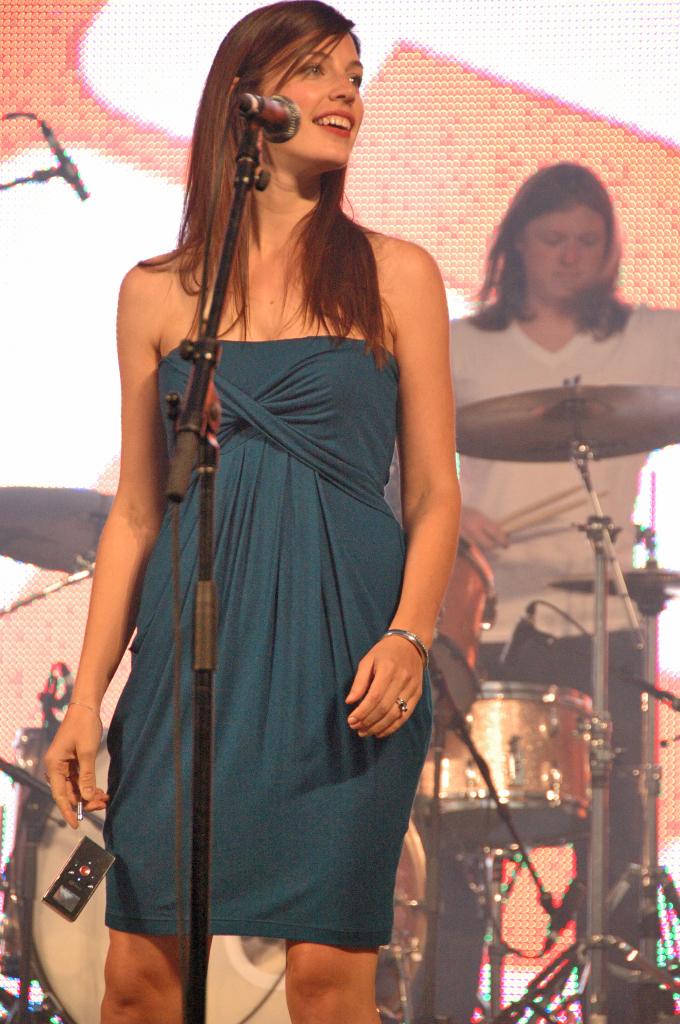 Canadian actress Jessica Paré